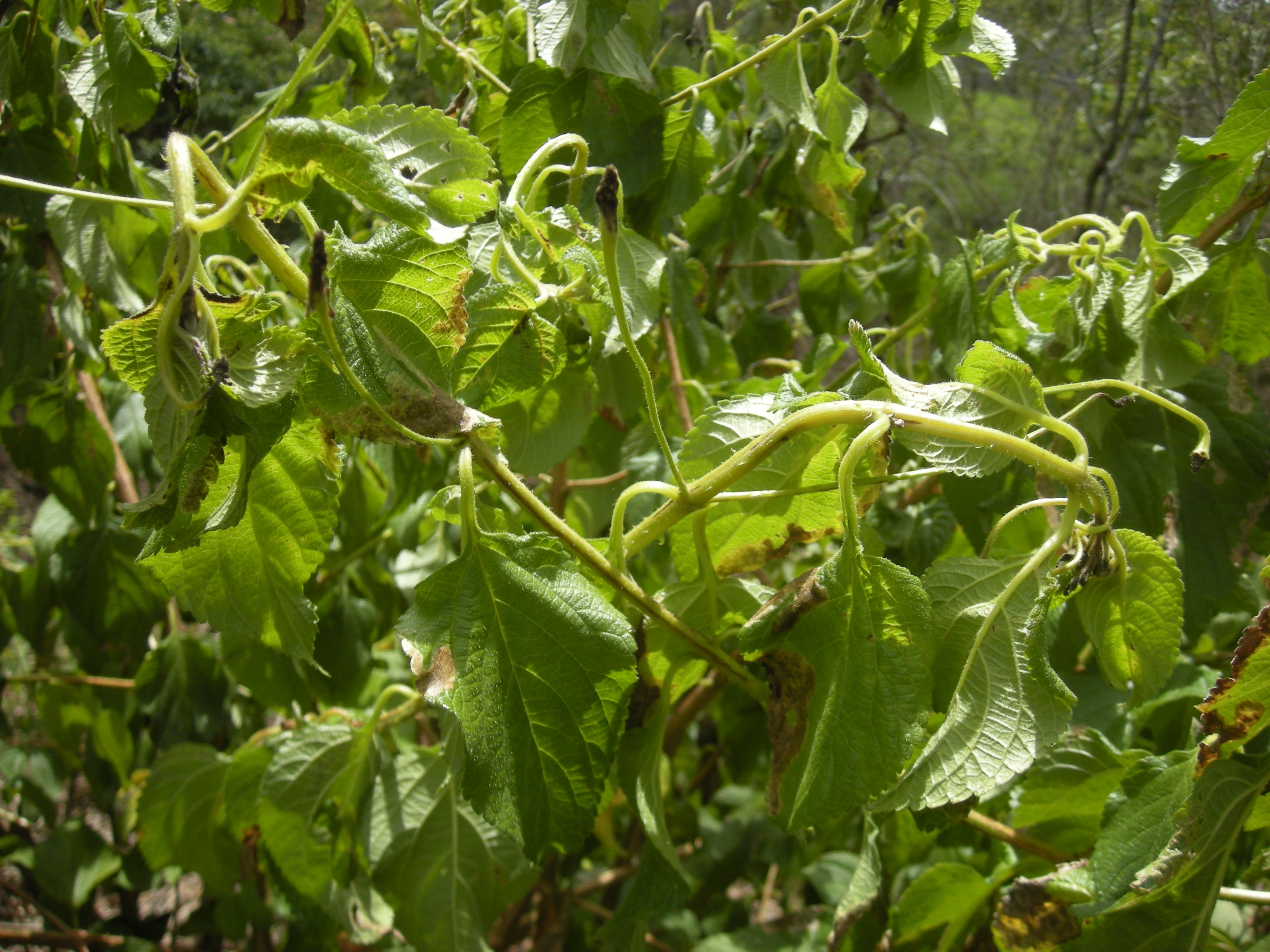 1Lantana camara plant showing affects of foliar 2-4-D application. 7 days after application. Central Queensland